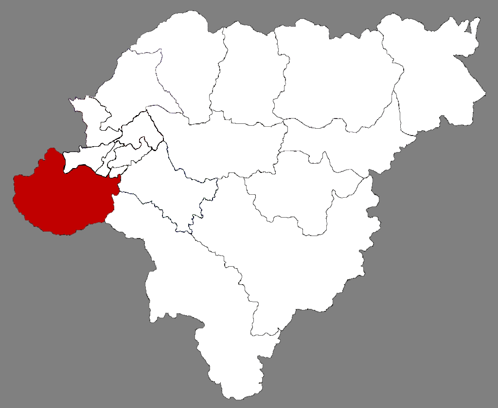 Location of Shuangcheng county-level city in Harbin City, China